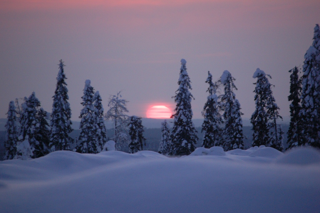 Sun setting on 7 March 2006 near Härmänmäki village in Paltamo municipality, Kainuu, Finland.